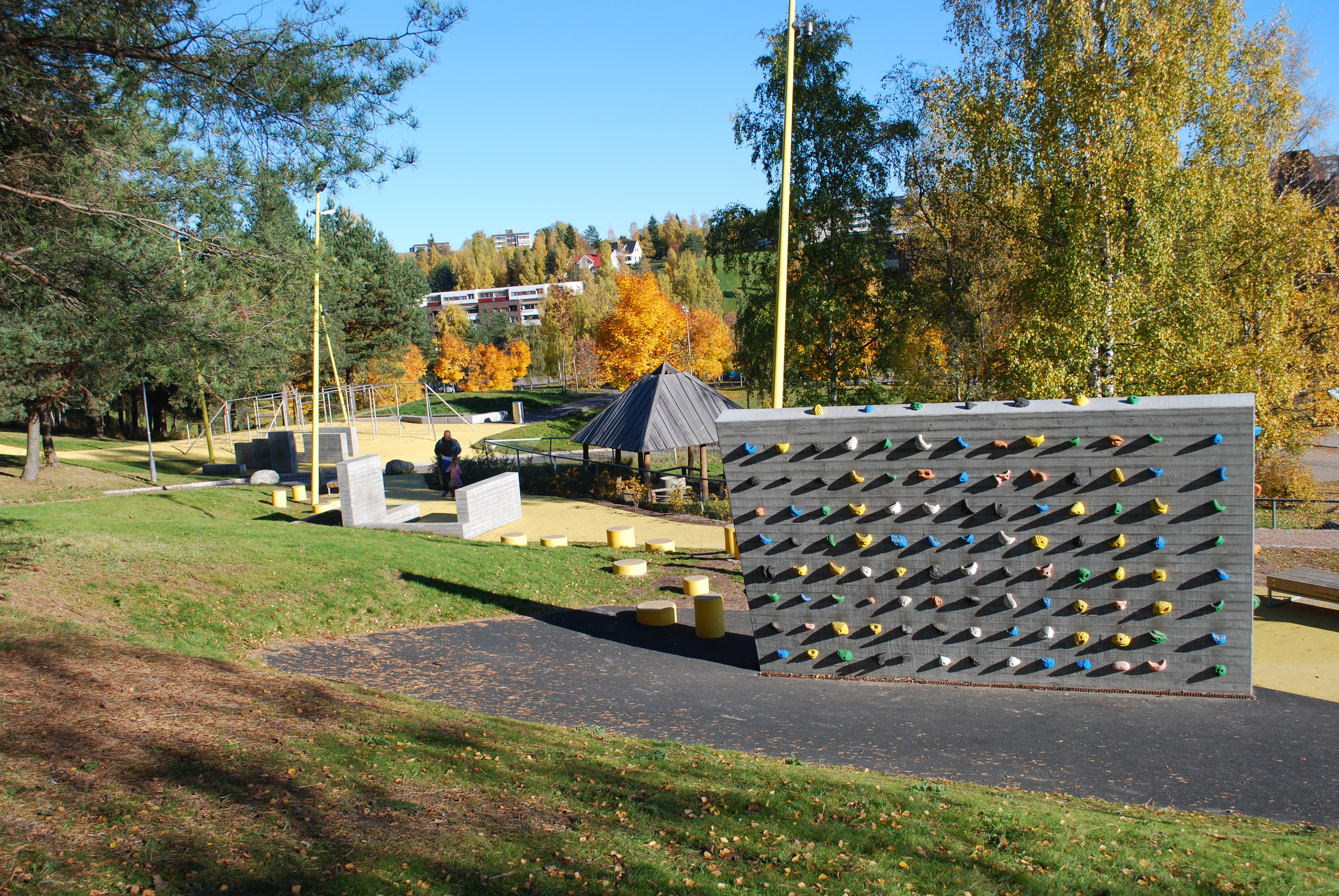 Verdensparken (the World Park), Furuset, Oslo. Parkour facility for training